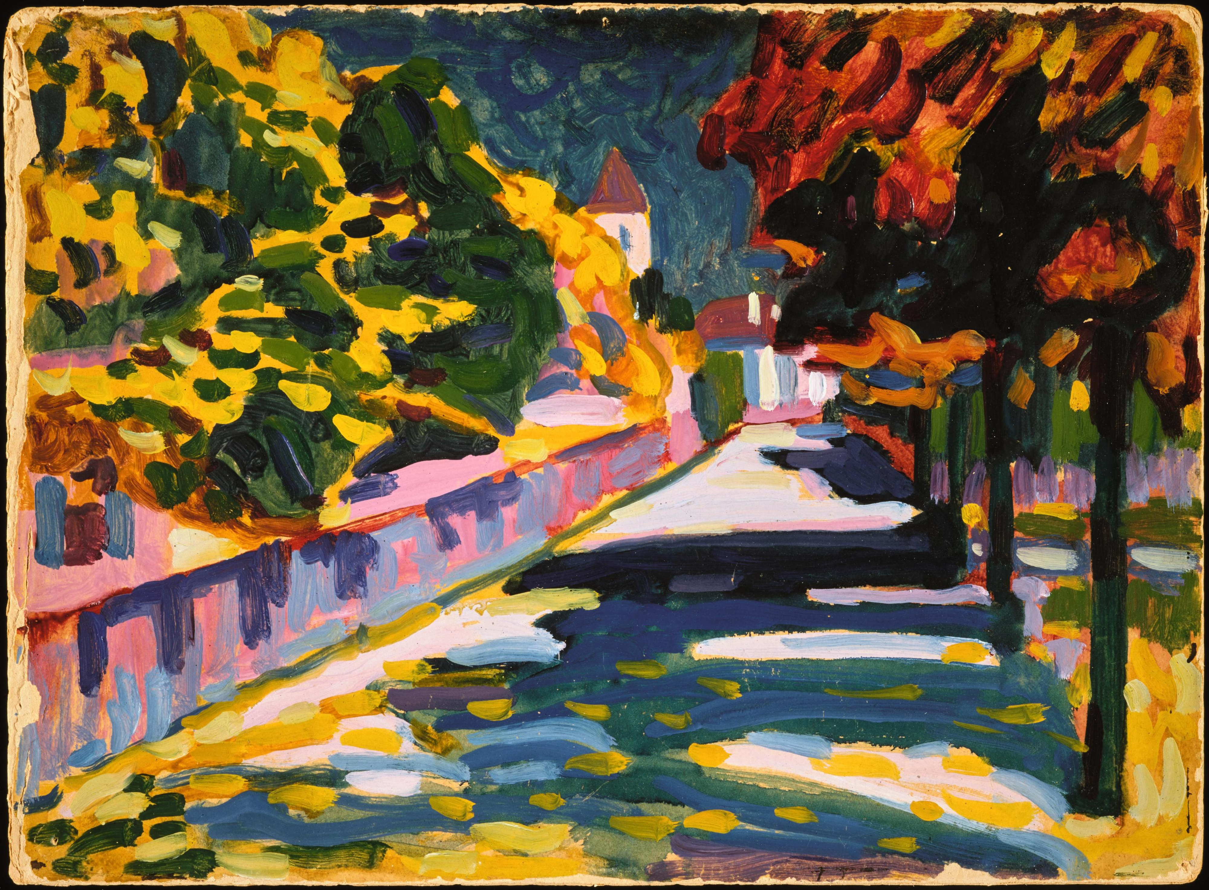 Autumn in Bavaria, Musee National Art Moderne, Centre Georges Pompidou